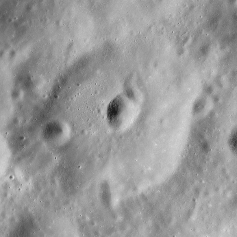 Slightly oblique view Ludwig, on the far side of the moon.